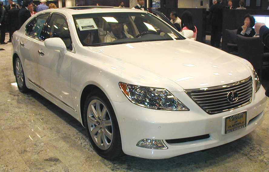 2007 Lexus LS 460 Starfire Pearl